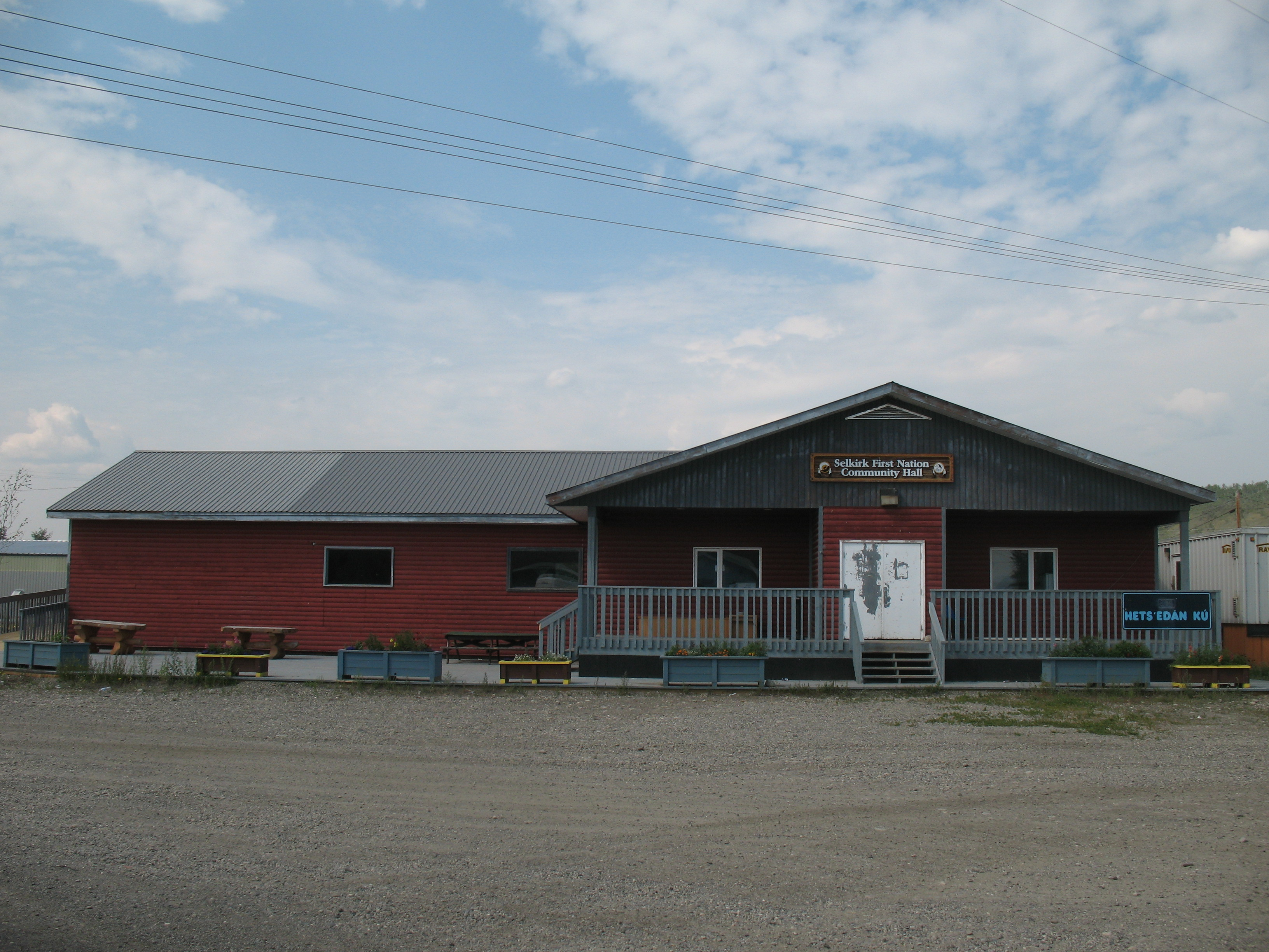 community hall of the Selkirk First Nation, Yukon, Canada